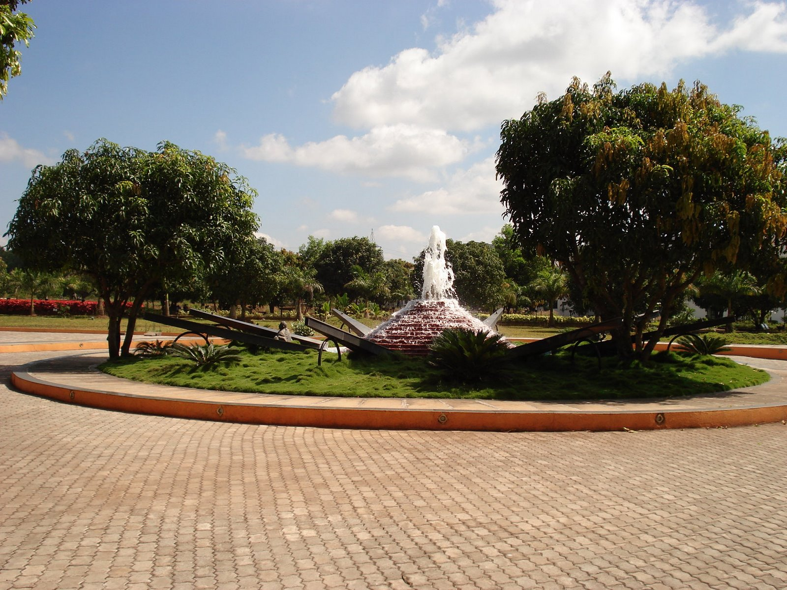 A Fountain at VTU campus